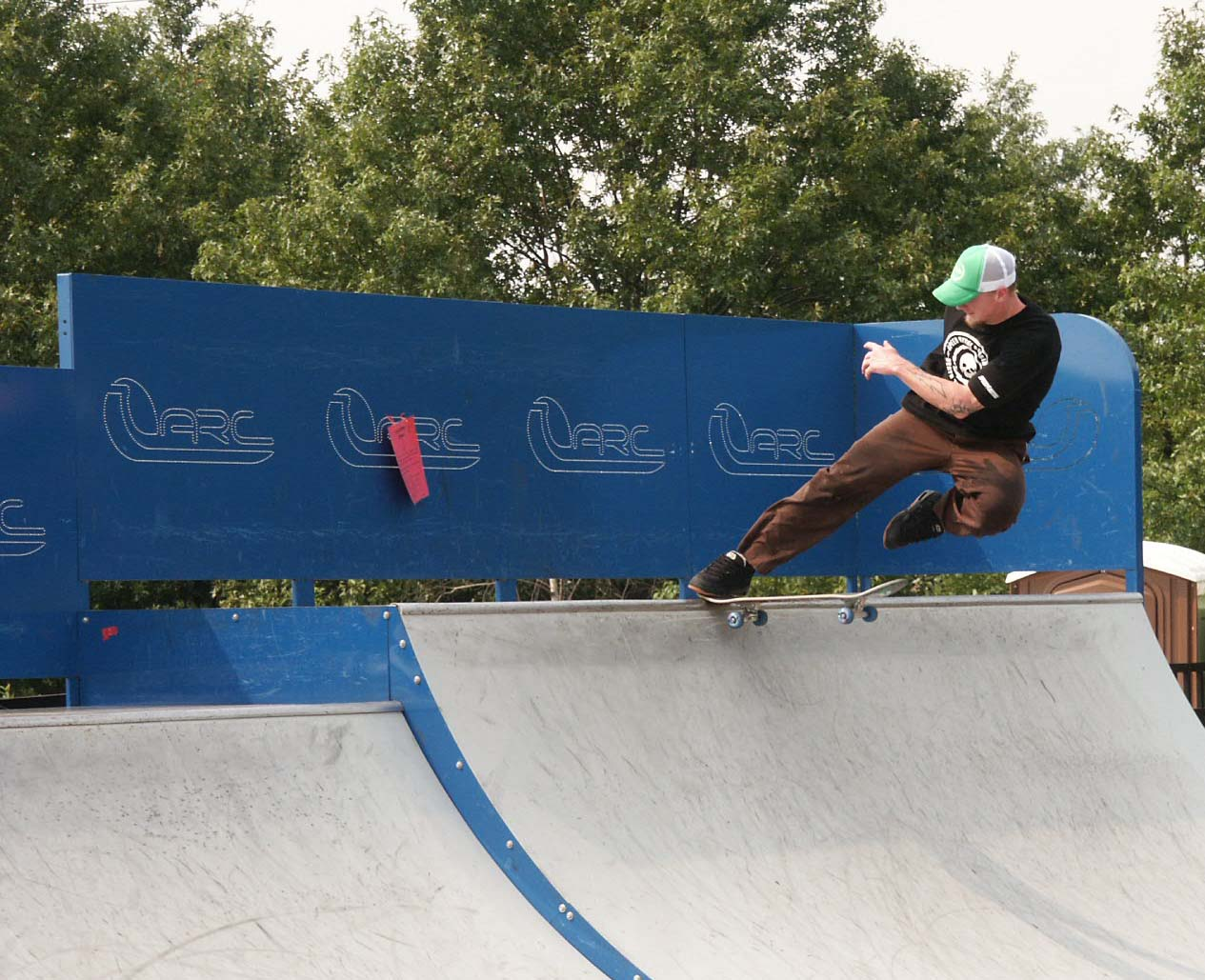 Mike Vallely